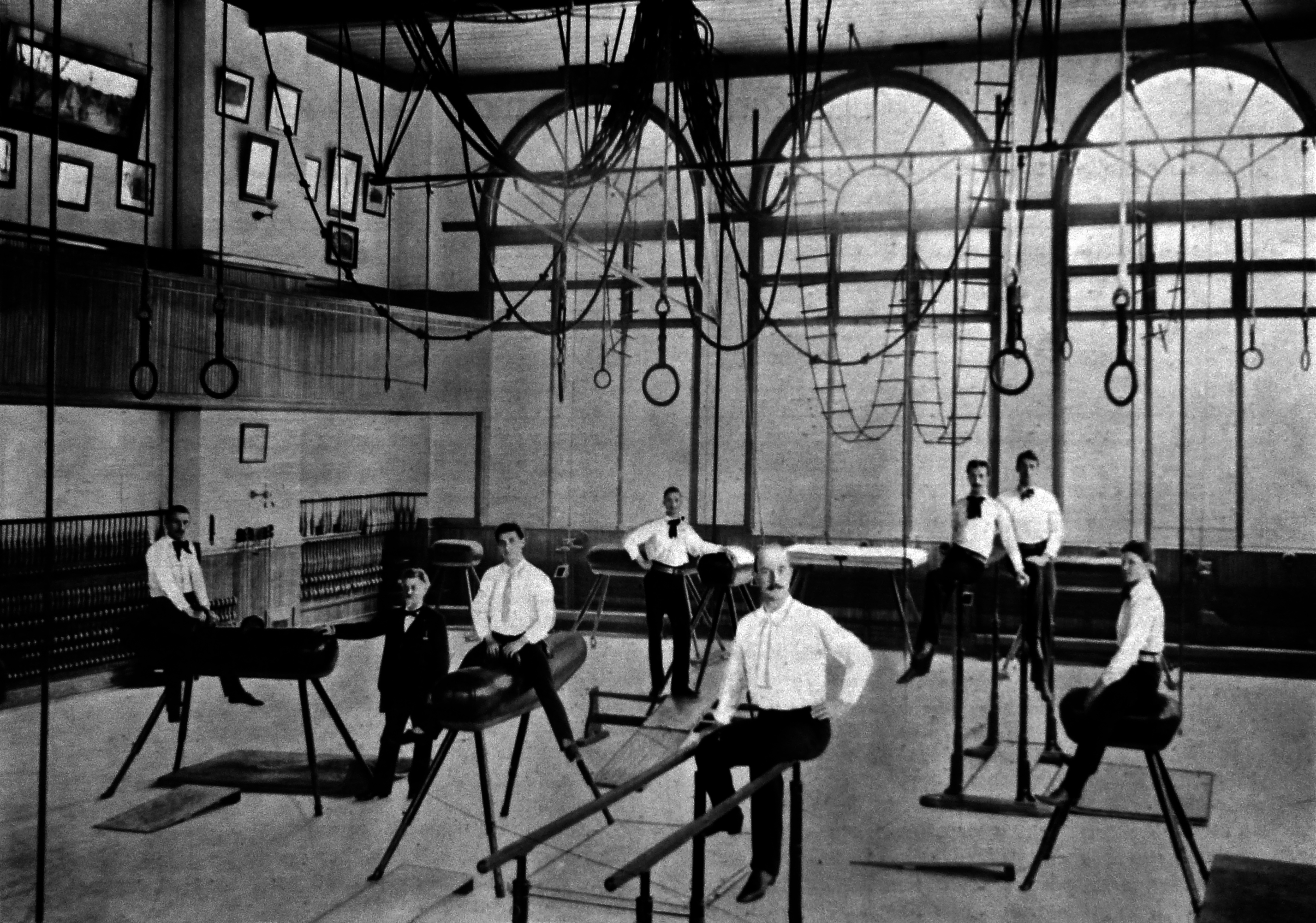 Gymnastics room in the National Gymnastics Hall at Milwaukee, ca. 1900. Second from left: George Brosius.